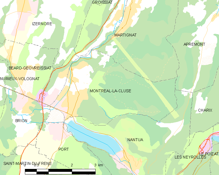 Map of French commune: Montréal-la-Cluse Map commune FR insee code 01265.png